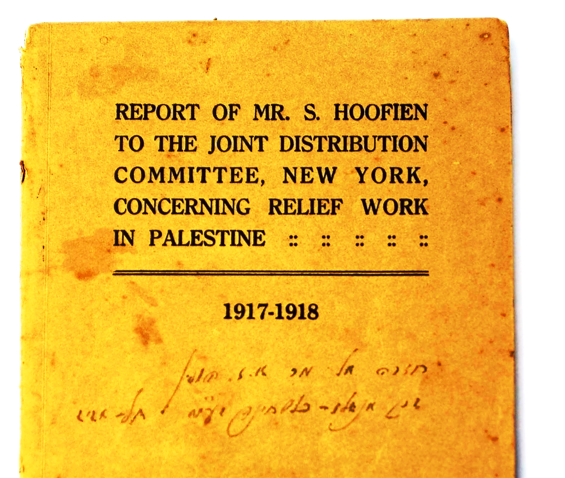 Cover of the report submitted by Siegfried Hoofien to the Joint Distribution Committee in New York concerning relief work in Palestine, 1917-1918.